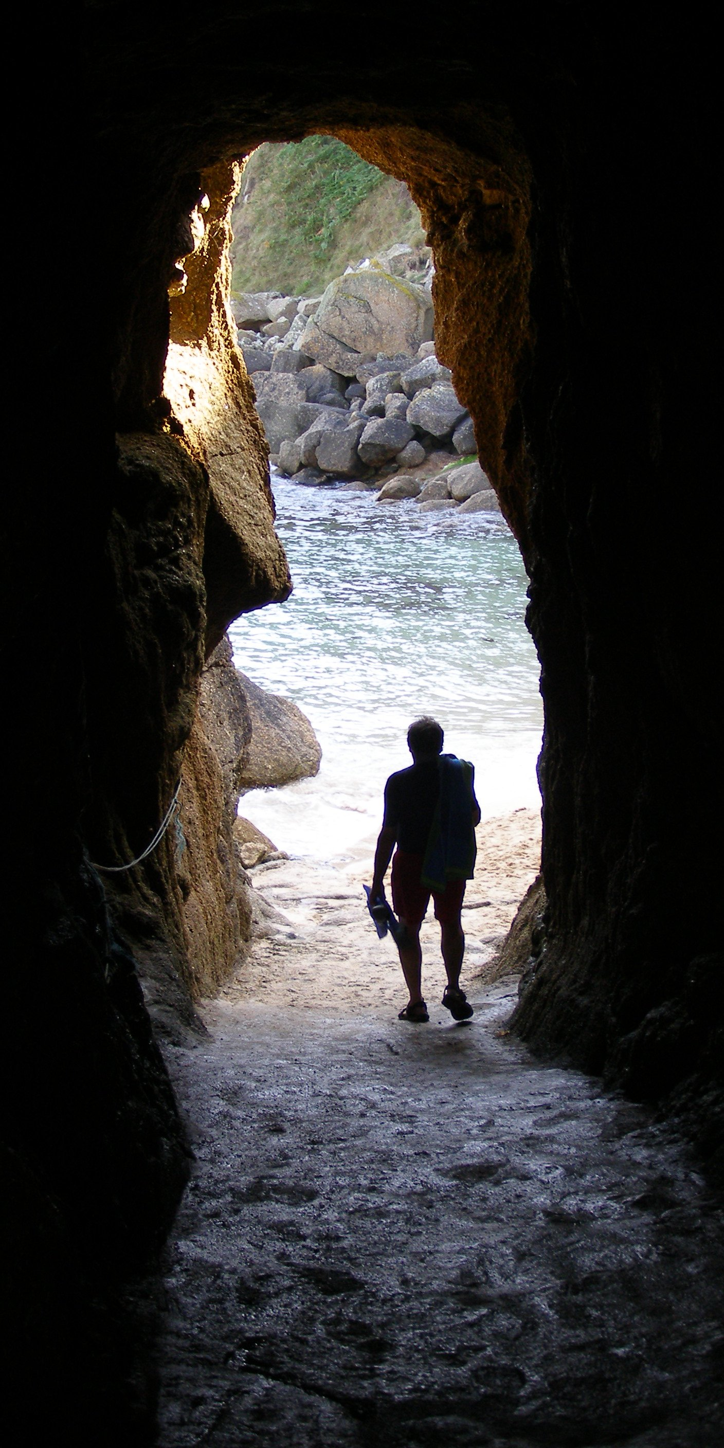 This tunnel leads from Porthgwarra down to the foot of the slipway in the cove. The tunnel was dug by miners from St Just to allow access to the beach so that farmers could retrieve seaweed by horse and cart.